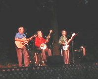 The Limelighters folk rock band